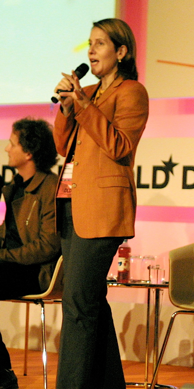 Paola Antonelli at the Digital Life and Design Conference